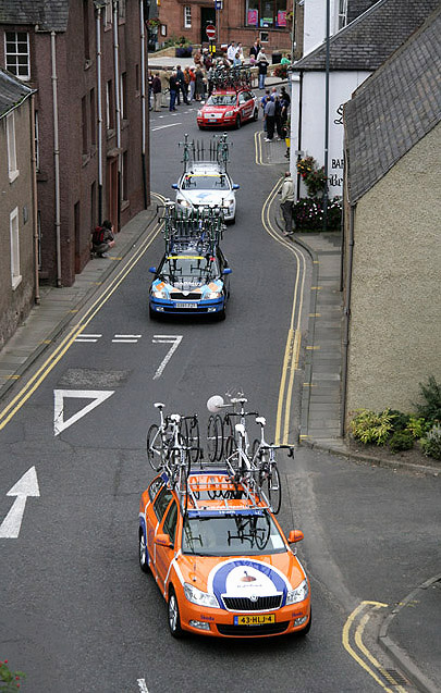 The 2009 Tour of Britain Cycle Race in Melrose